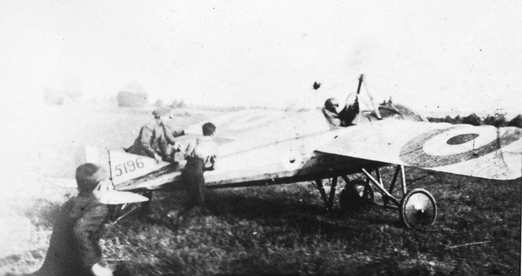 Morane-Saulnier N in RFC markings